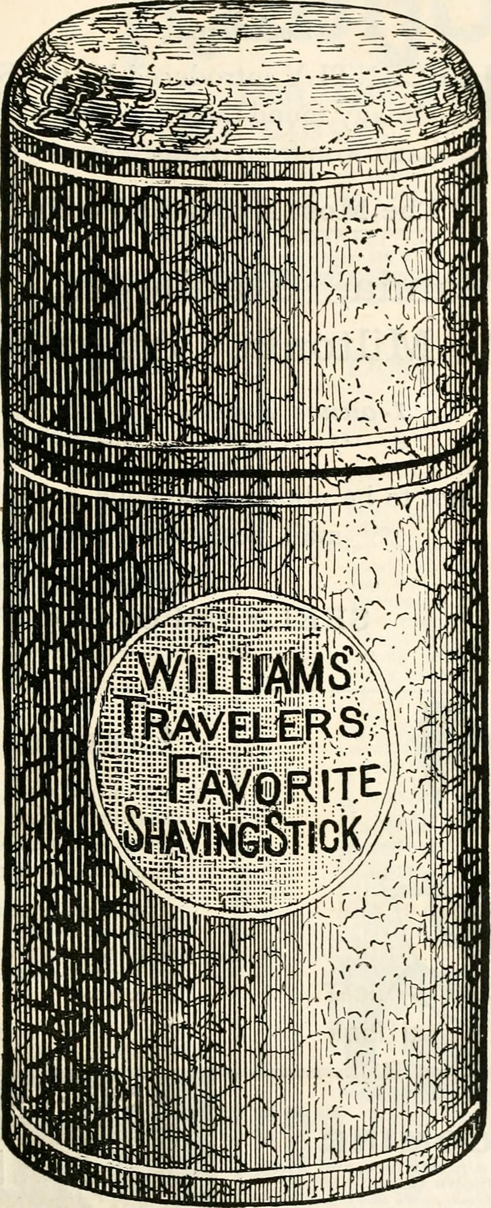 Title: The Century illustrated monthly magazine Year: 1890 (1890s) Authors: Nicolay, John G. (John George), 1832-1901 Hay, John, 1838-1905 Ingraham, Prentiss, 1843-1904 Subjects: Lincoln, Abraham, 1809-1865 Booth, John Wilkes, 1838-1865 Publisher: New York : The Century Co. Text Appearing Before Image: MANUFACTURERIISHEFFIELOI DOCTOR SHEfflELtfS CREME DENTIFRICE PRICE 2^^ ^B.F.ALLEN&COljjSOLEAGENTSJ 365&367CANALSTJNEW YORK. W.W. SHEFFIELD, D.D.S. New London, Conn. hiventors, Pi-ojectors andProprietors of all the pat-ents covering the systemof making artificial teethwithout plates. Send fur pamphletdescriptive of this work,mailed free. Text Appearing After Image: SUCCESS has crowned our efforts to produce a Shaving Stick superior in every r«/?f;l to any other. WII1L.IAMS SHAVINO STICK is the result. Those who have used others pronounce this ^ar superior. The lather Is richer and creamier, and -will not dry on the face wliile shaving. The perfume is that of the finest selected attar of ro!;es. The case is covered with leatherette, and is most attractive and serviceable. Do you not think it would pay you to Try it? It costs no more than others. It is a genuine toilet luxury. B^^ If your Druggist does not have Williams Shaving Stick, we will mail you one neatly packed, postage paid, for 25c. in stamps. One Williams Shaving Stick is enough for 250 shaves. 10 comfortable, refreshing shaves for One Cent. Try It. Address THE J. B. WILL.IA3IS CO., Glastonbury, Conn., EBiabliihed half a hundred years. Makers of the famous Genuine Yankee Soap. Orchid Flower Perfumes (Registered), RECENTLY introduced by the Seely Mfg. Co., havealready found their way in